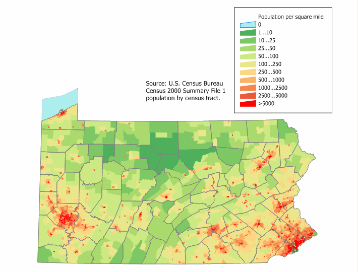 Pennsylvania population distribution based on Census 2000. See the process description for the data lineage.